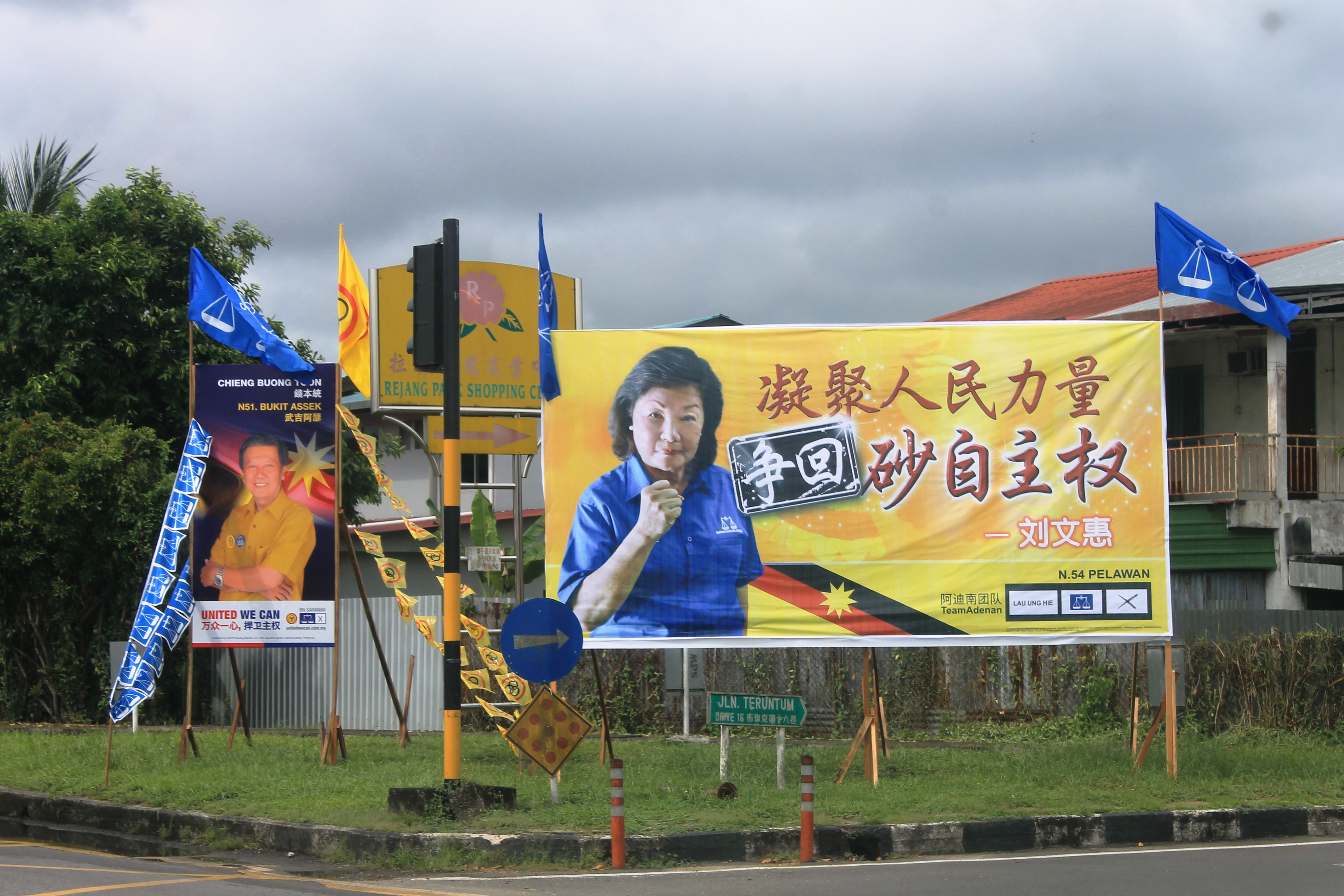 SUPP (Chieng Buong Toon) and BN direct candidate (Datuk Janet Lau) posters in Sibu during the 2016 Sarawak state election